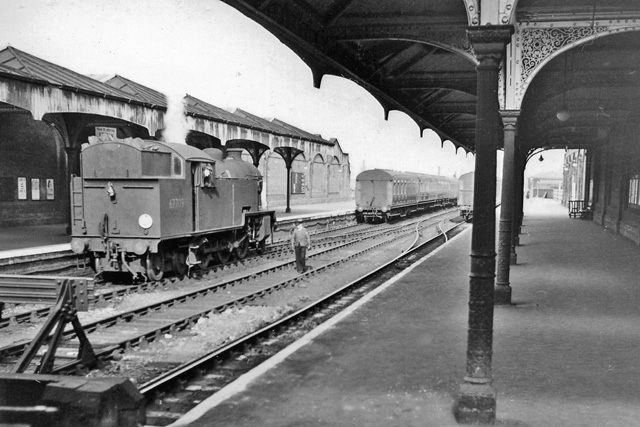 Hertford East Station. View eastwards, out from buffer-stops; ex-Great Eastern terminus of line from Liverpool Street via Broxbourne. The locomotive is a Class L1 2-6-4T, which had recently arrived on a train from Liverpool Street and was about to run round it.